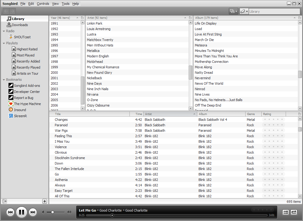 A screenshot of Songbird